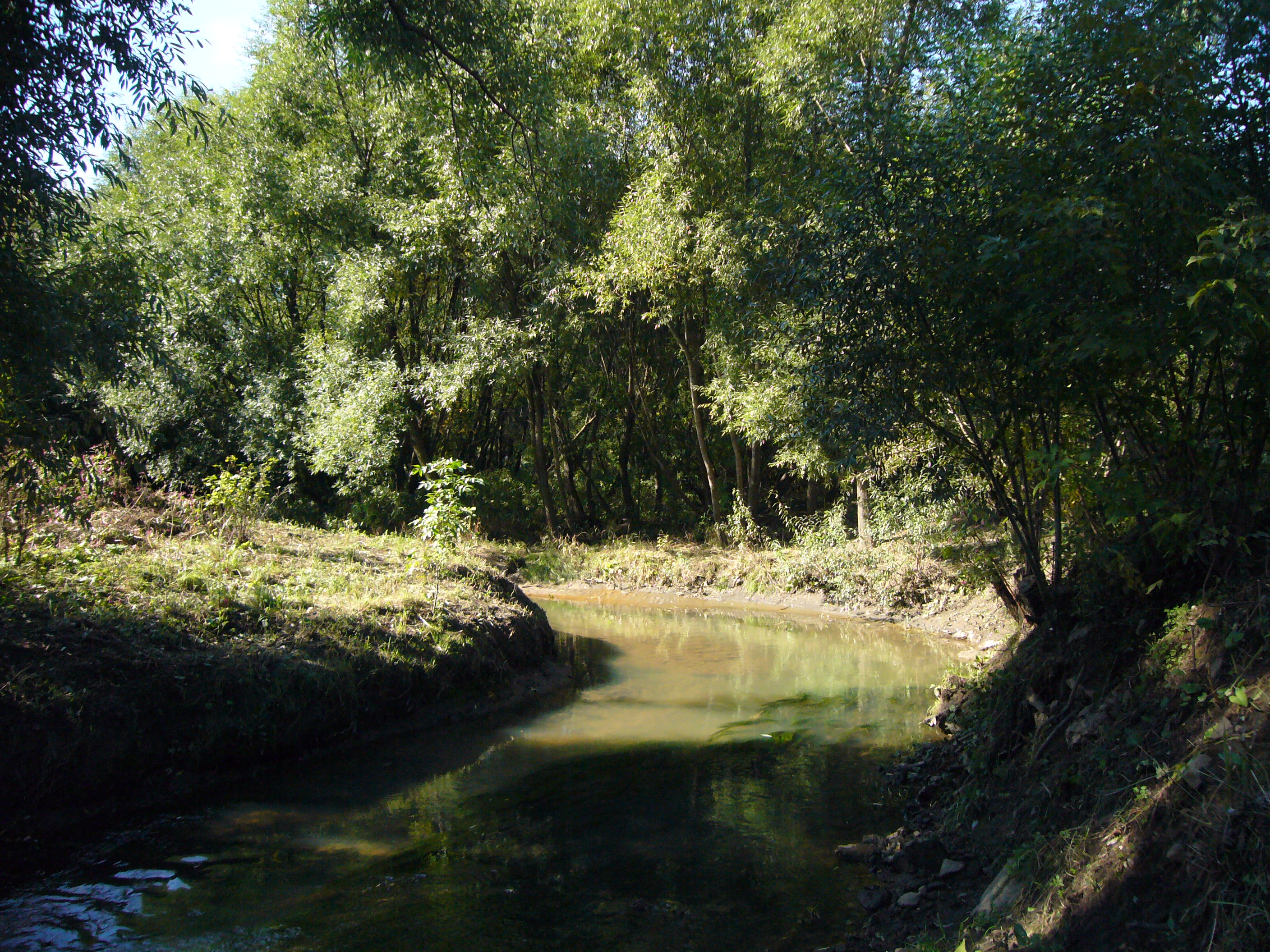 View of Chertanovka River near Proletarsky Avenue, Moscow, Russia